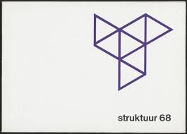 company logo Struktuur68